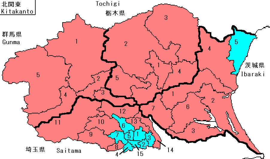 Presentation of the results of the Japan general election, 2003 in the single member districts of the North Kantō block, based on district boundary information in :ja:衆議院小選挙区一覧 and mapping tools provided by Japanese Wikipedia User Koba-chan. Color codes: LDP - red DPJ - light blue New Komeito - green SDP - purple New Conservative Party - dark blue Other/Independent - gray Some independent politicians joined major parties immediately after the election, and their districts are marked with a colored square around the number. This is also true for the members of the New Conservative Party, which was wholly subsumed into the LDP.